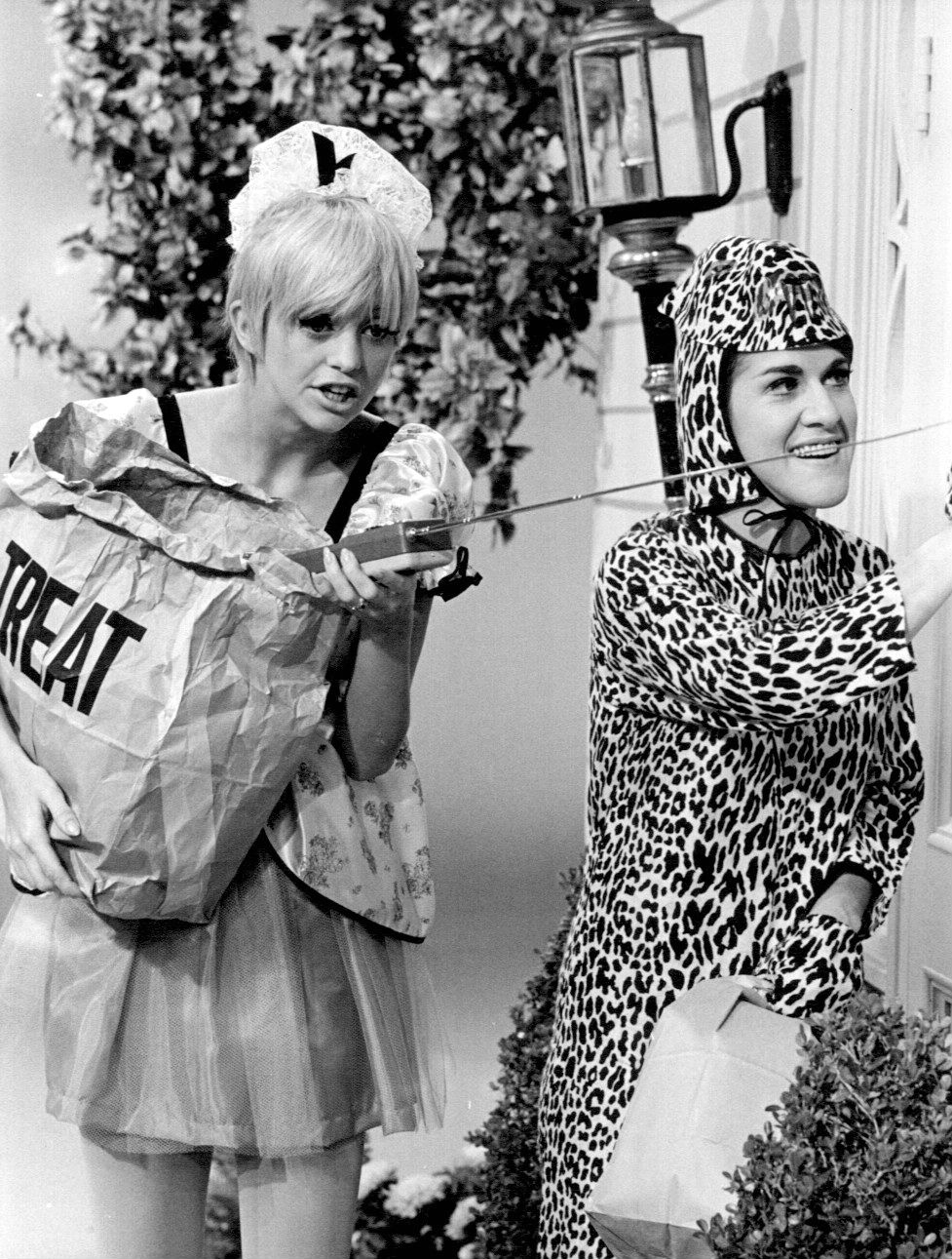 Publicity photo from Rowan & Martin's Laugh-in. Pictured are Goldie Hawn and Ruth Buzzi in a trick or treat skit.